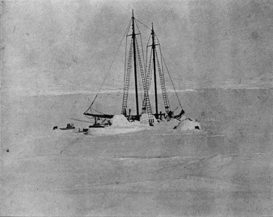 Photograph of the Bowdoin frozen in the Arctic. Original caption: "THE 'BOWDOIN' FROZEN FOR THE WINTER Note the snow igloos built on the deck of the ship, covering the hatches to retain the warmth."